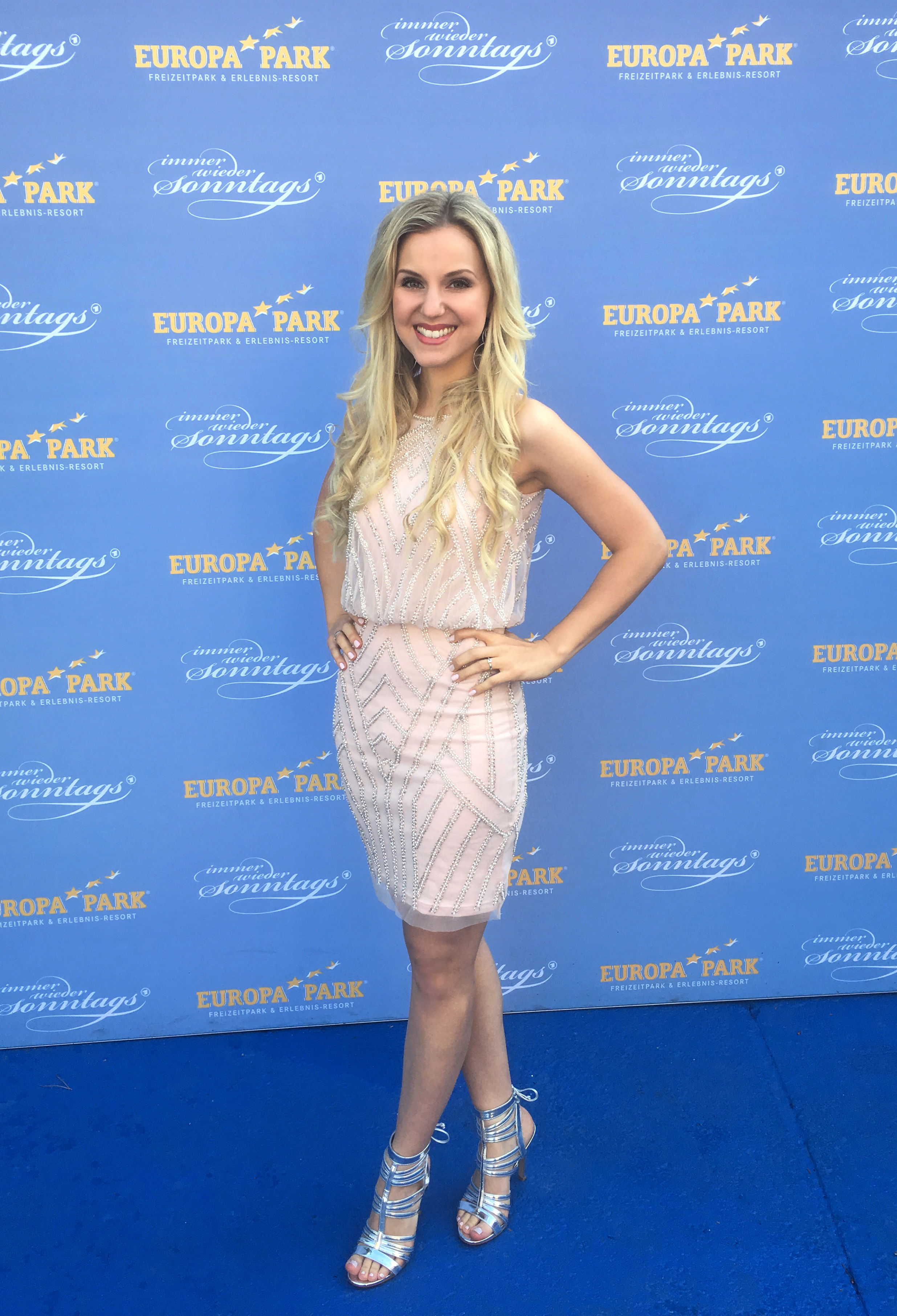 Singer Natalie Holzner at the TV show "immer wieder sonntags"